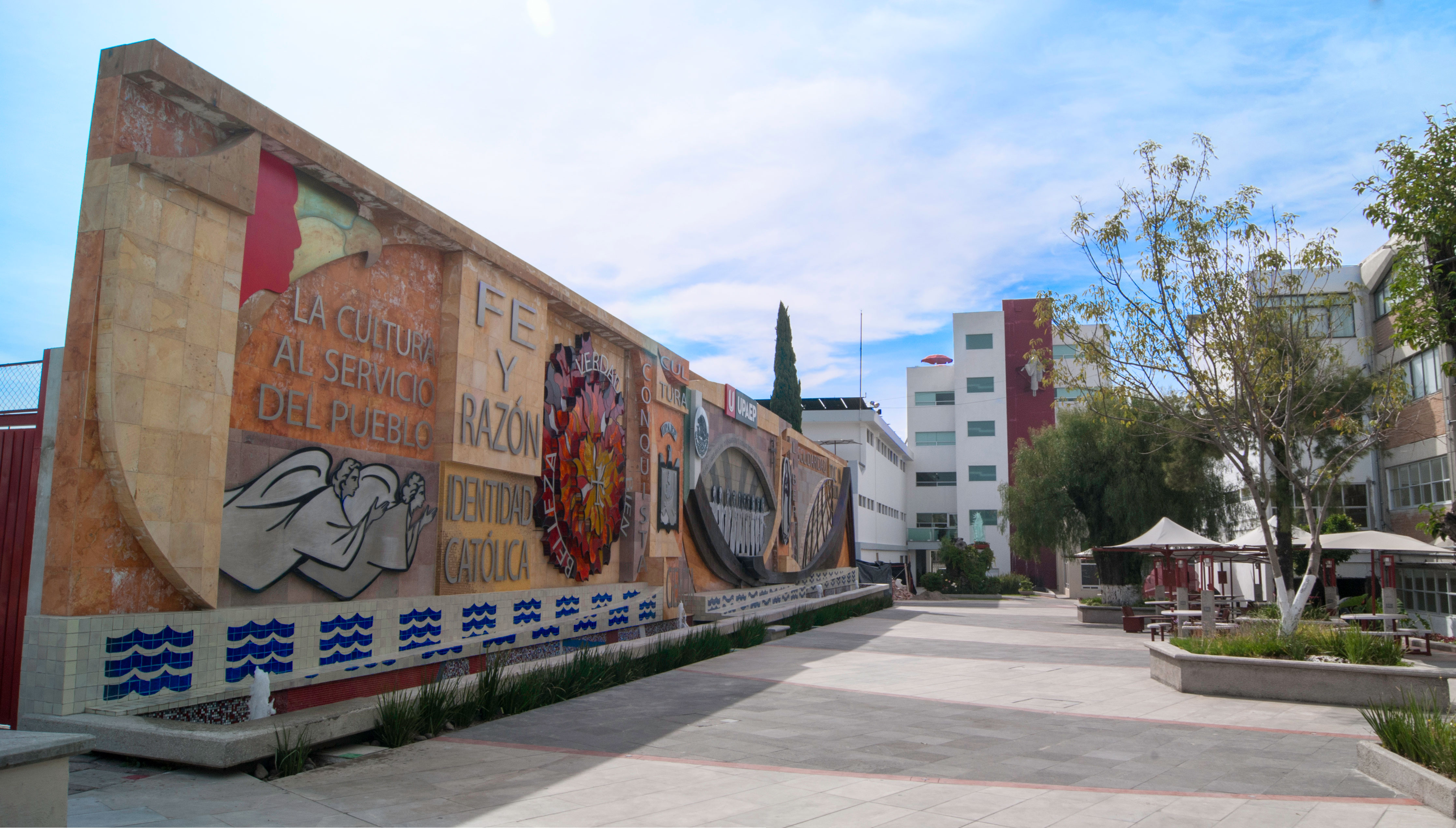 Pasillo de los fundadores